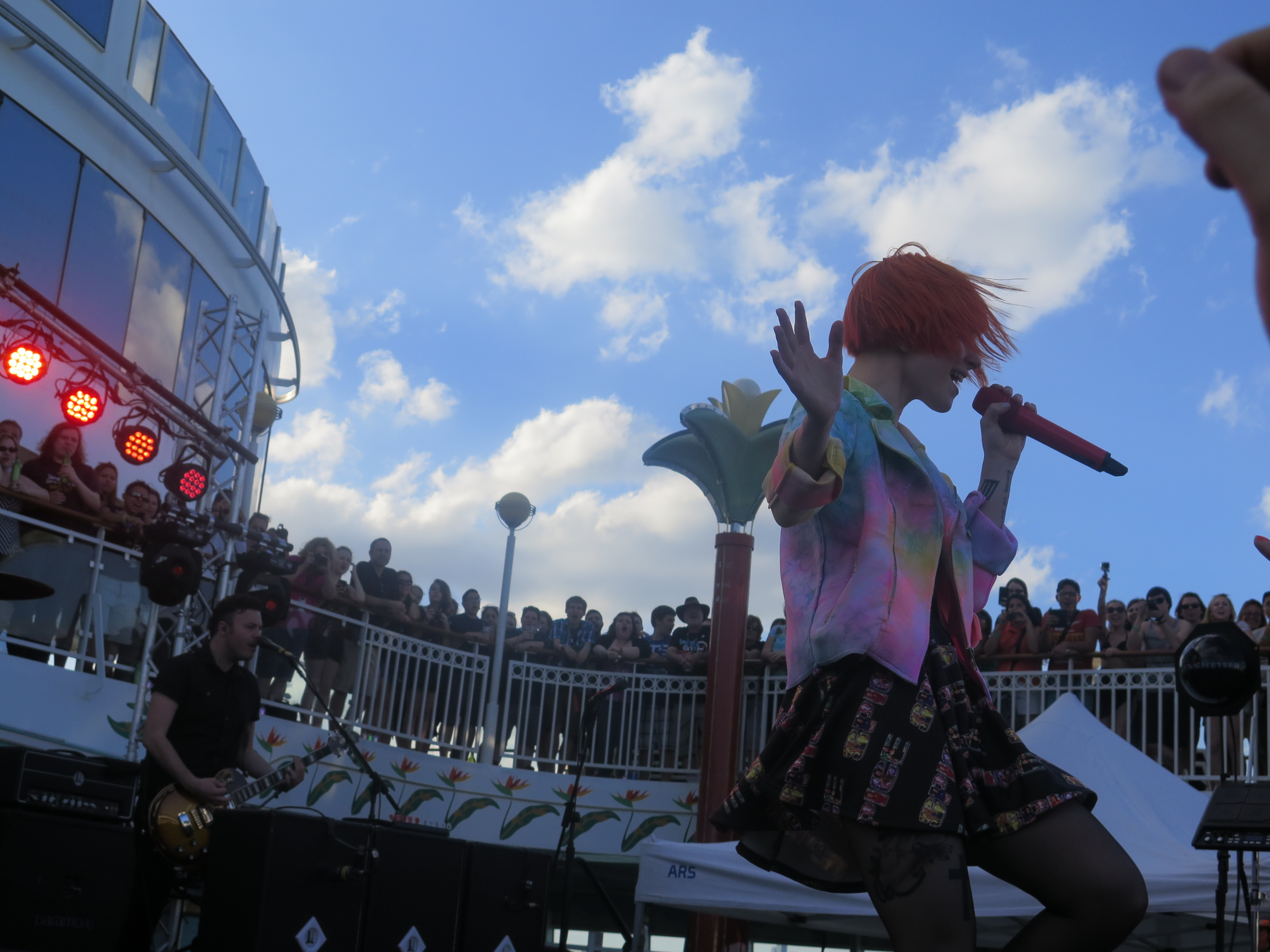 Paramore live on Parahoy! Cruise in March, 2014